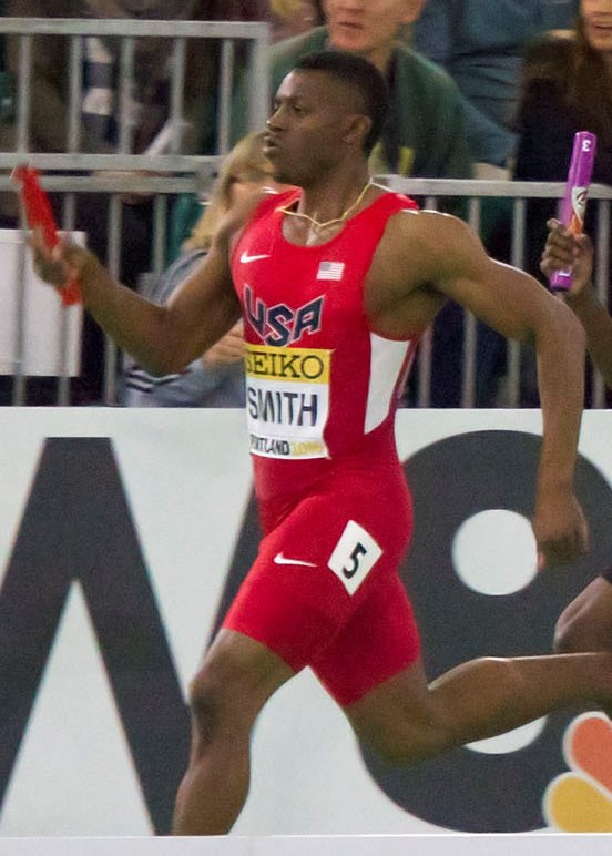 Calvin Smith Jr. competing at the 2016 IAAF World Indoor Championships